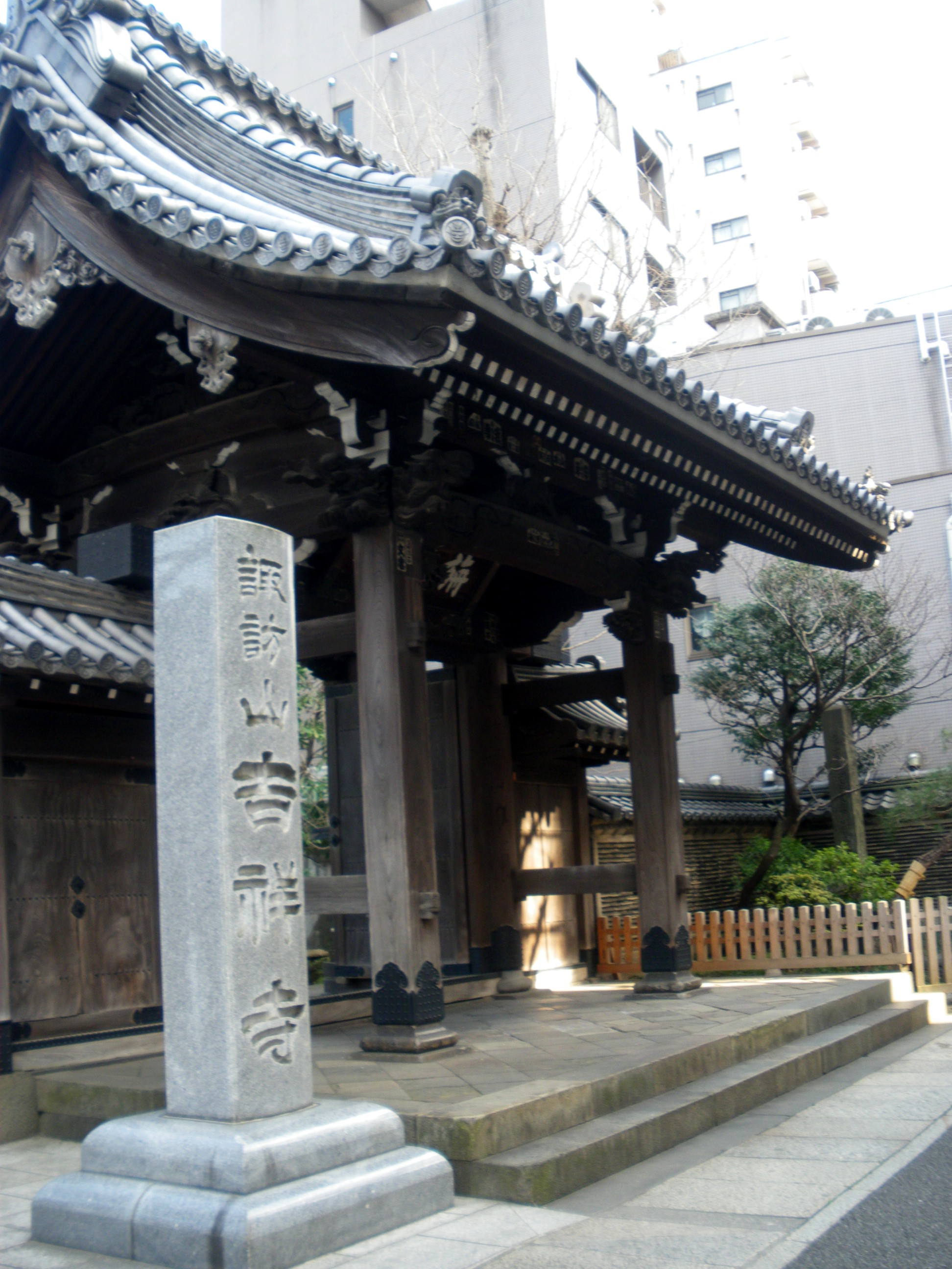 A photo of the main entrance of Kichijō-ji temple,Honkomagome,Bunkyo-ku,Tokyo,Japan.